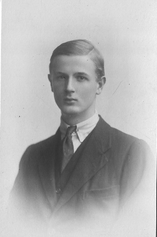 Cecil Harmsworth King became Chairman of Daily Mirror Newspapers, Sunday Pictorial Newspapers and the International Publishing Corporation (1963–68), and a director at the Bank of England (1965–68).